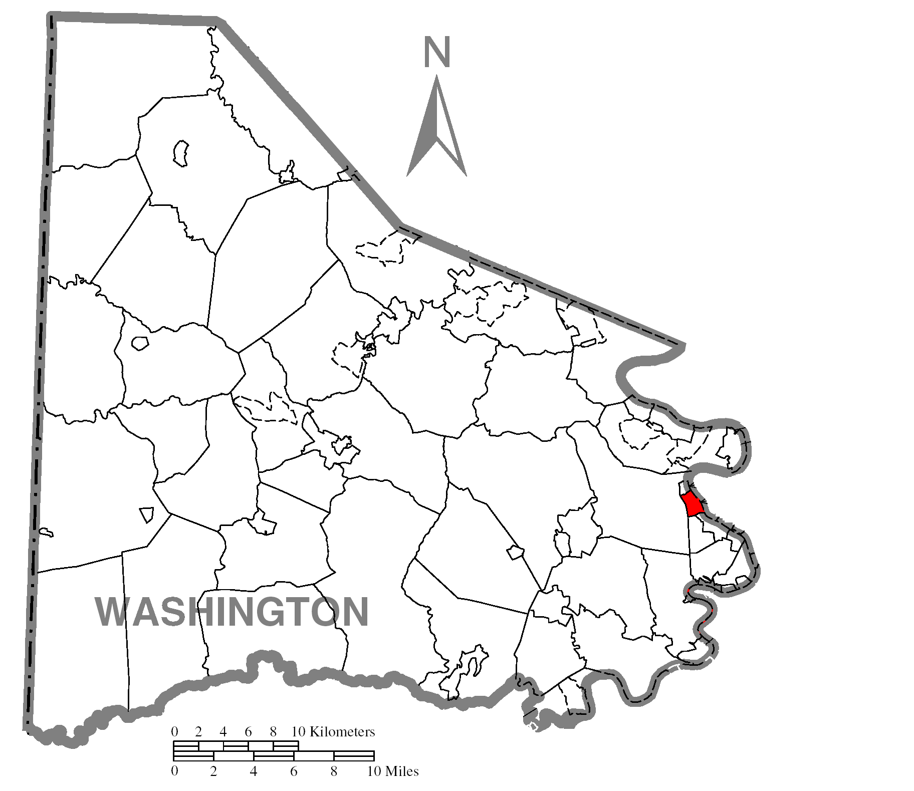 Map of Washington County higlighting Charleroi.